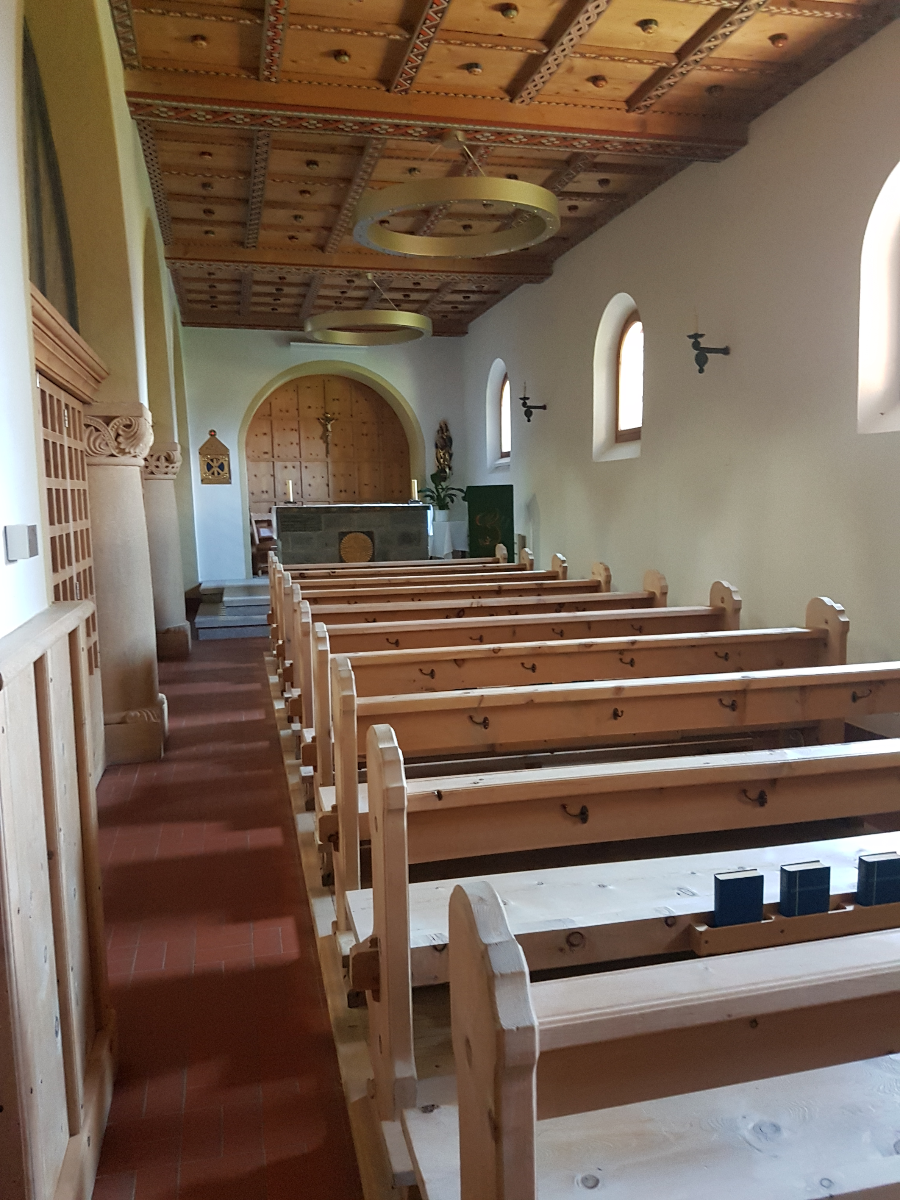 Baselgia catolica Herz-Jesu (catholic Church: Sacred Heart) in Samedan, Grisons, Switzerland. Side chapel.